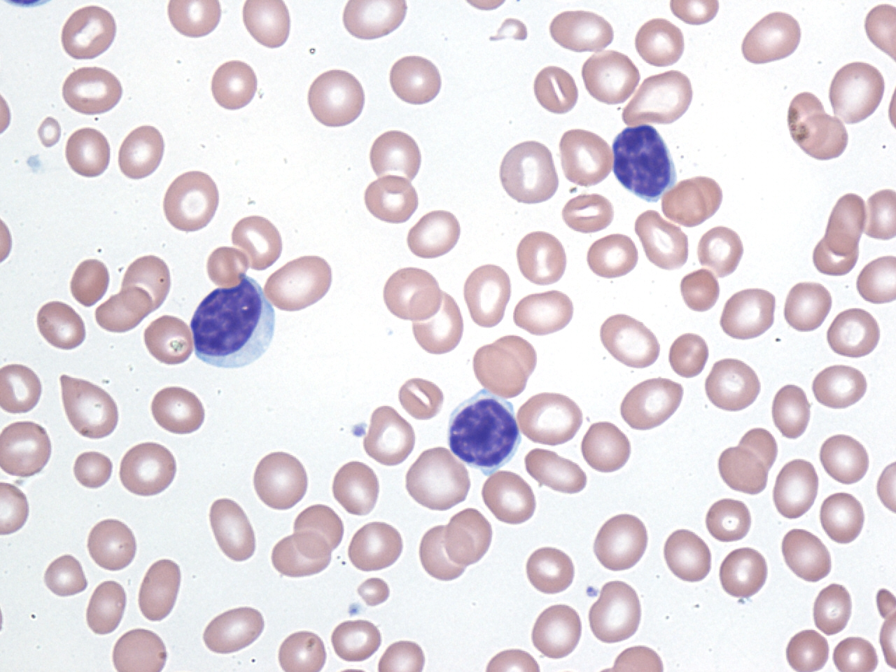 Peripheral blood with chronic lymphocytic leukemia (Wright-Giemsa, 50x). Note the presence of mature atypical lymphocytes with "cracked earth" or "turtle shell" chromatin.